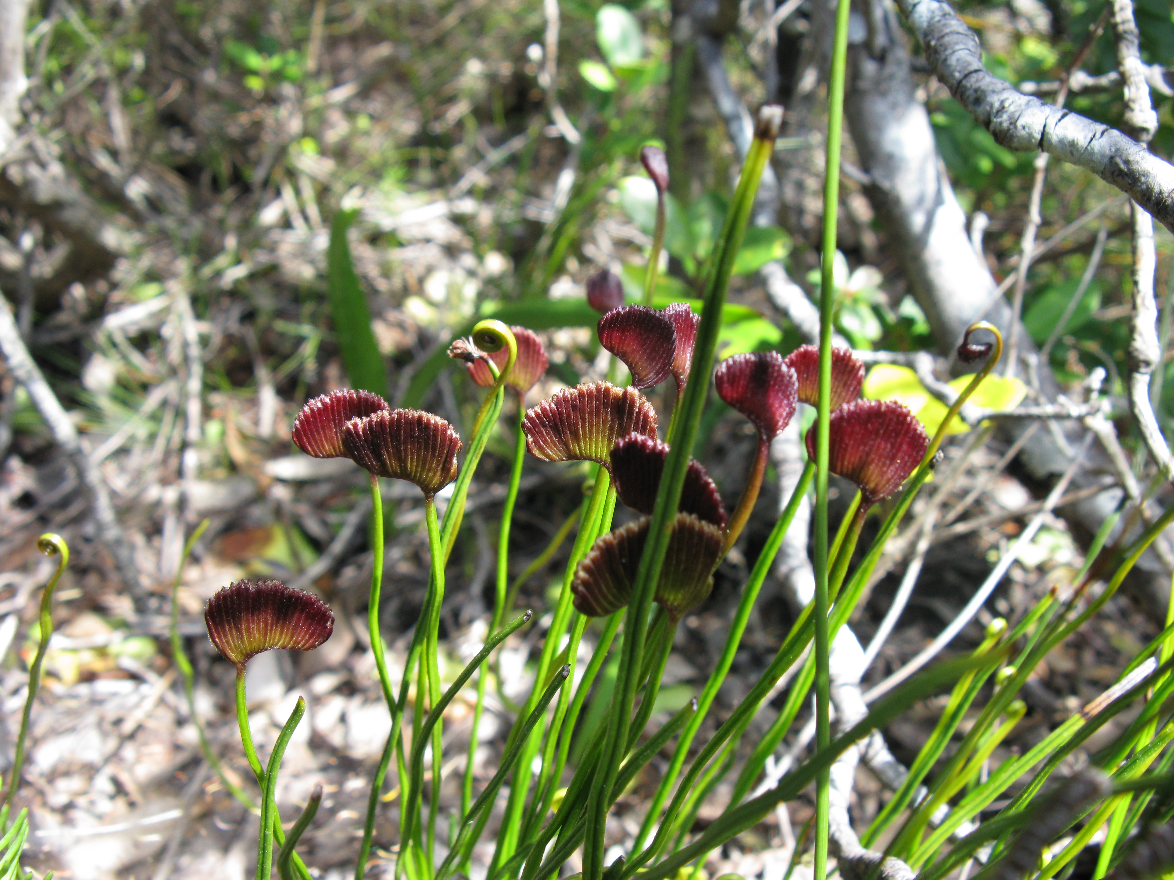 Schizaea pectinata showing crozier, fertile fronds, and grass-like barren fronds